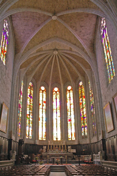 Lodève, cathedral. France